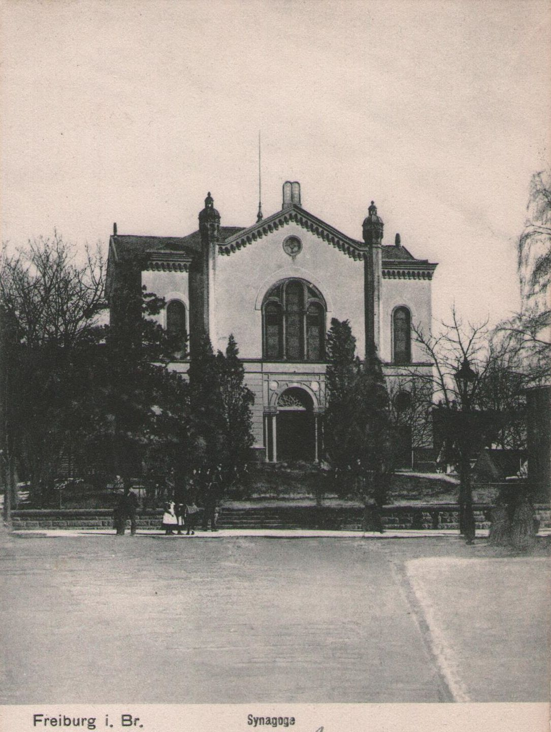 Old Synagogue, Freiburg, 1910.